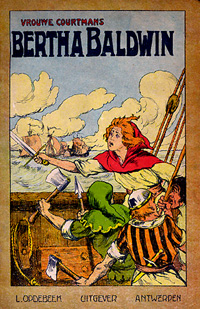 Vrouwe Courtmans - Bertha Baldwin (1871)